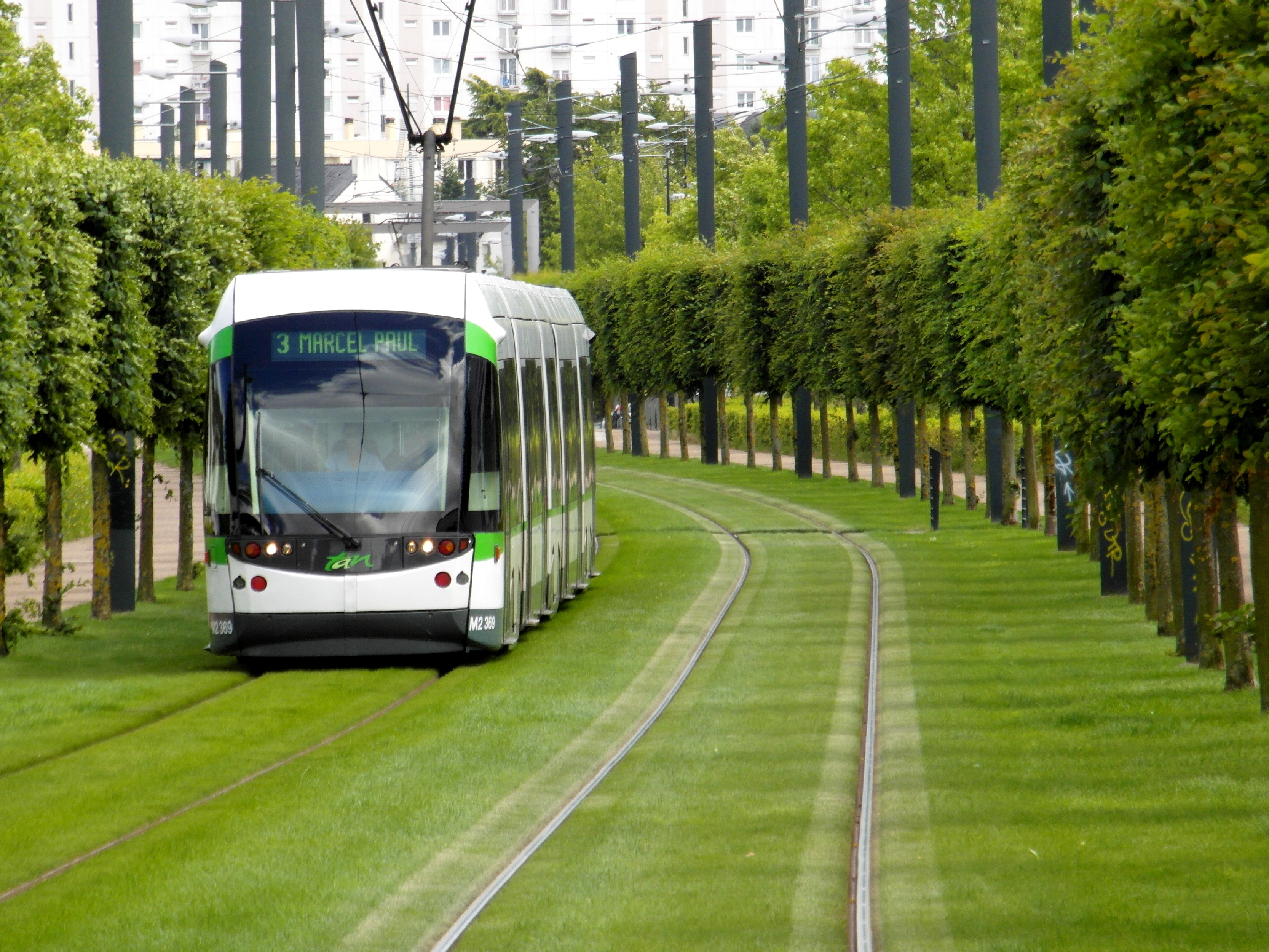 Nantes - Tramway - Details - Adtranz Incentro